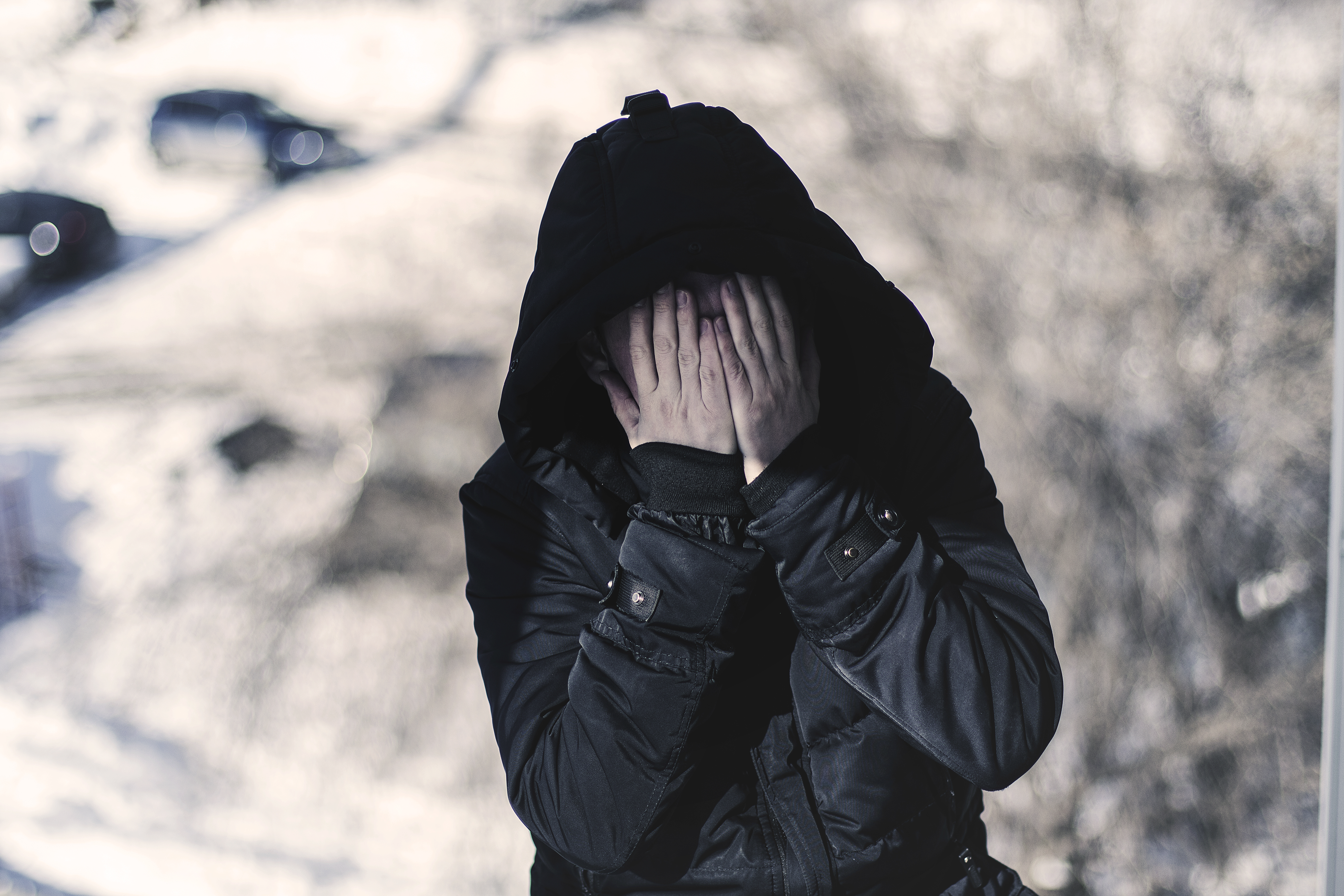 Lonely alcoholic in a winter jacket sits on the roof in fear covers his face with his hands